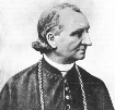 Gaspard Mermillod, a Roman Catholic Church's Cardinal, born in Carouge, Switzerland (1824 - 1892).